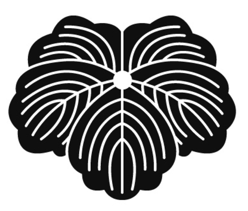 Tsuta-mon (Ivy crest) is a family crest for the Matsunaga clan